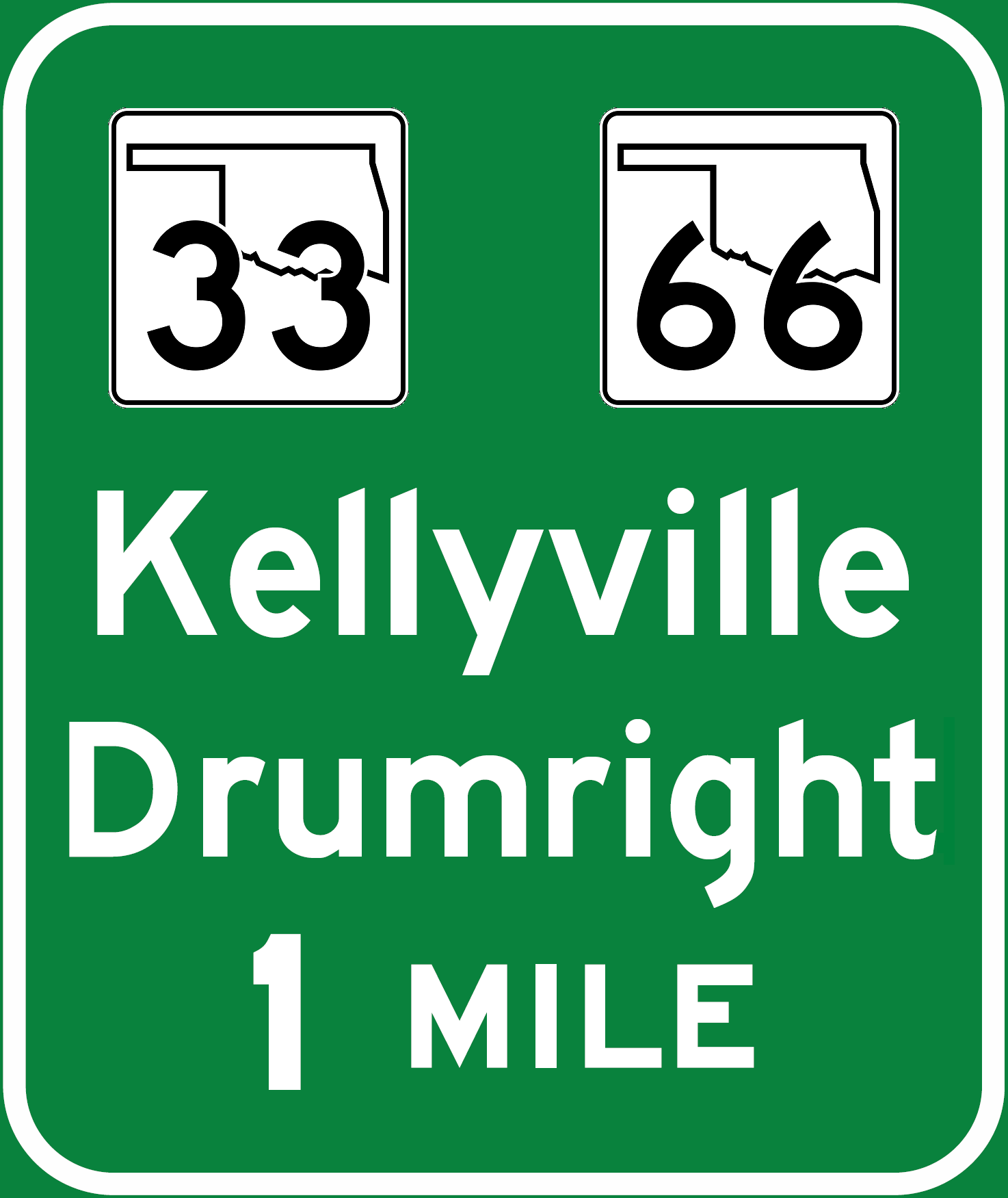 SH33 SH66 Kellyville Drumright 1MILE